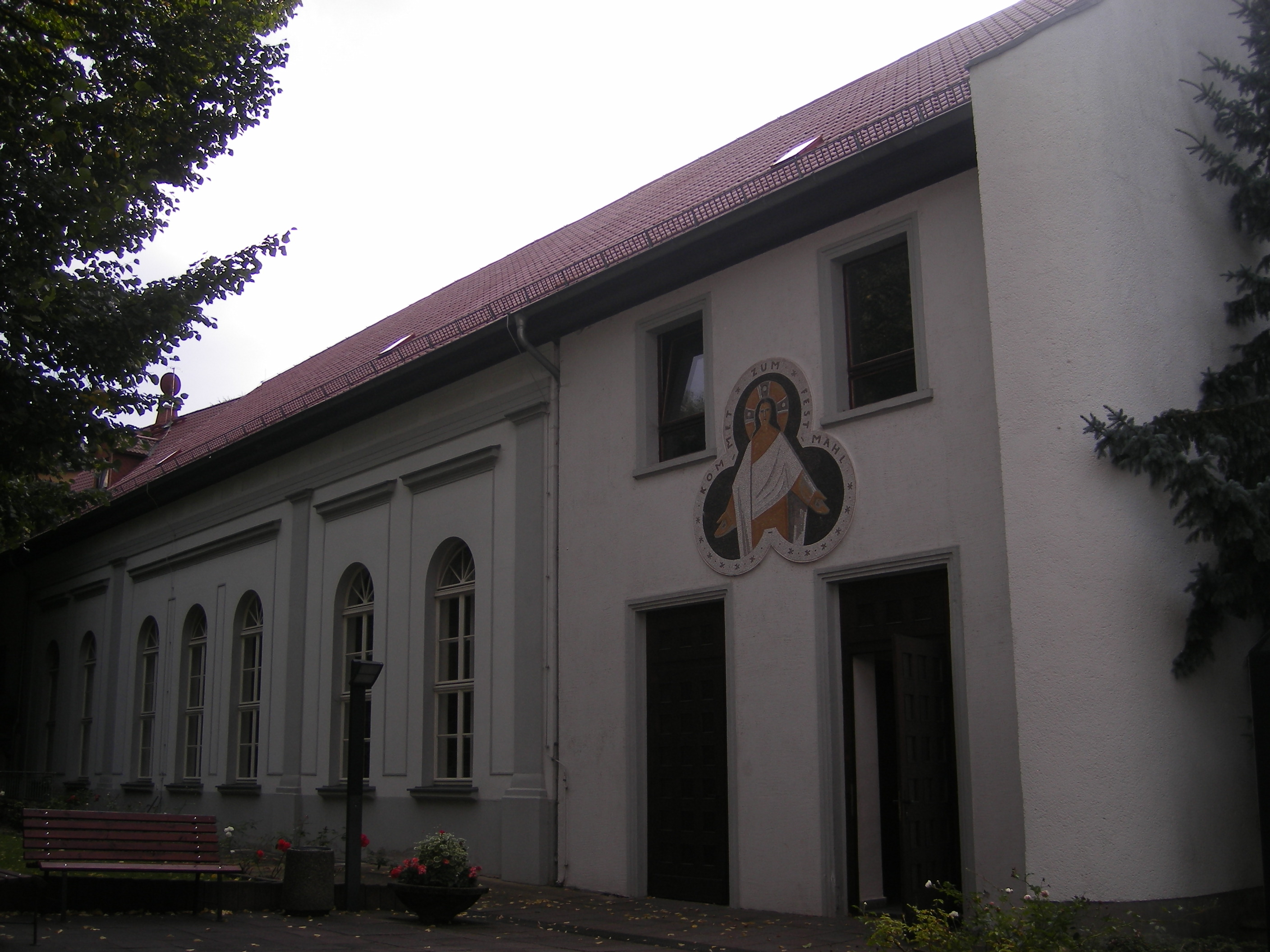 Catholic church in Altenburg/Thuringia